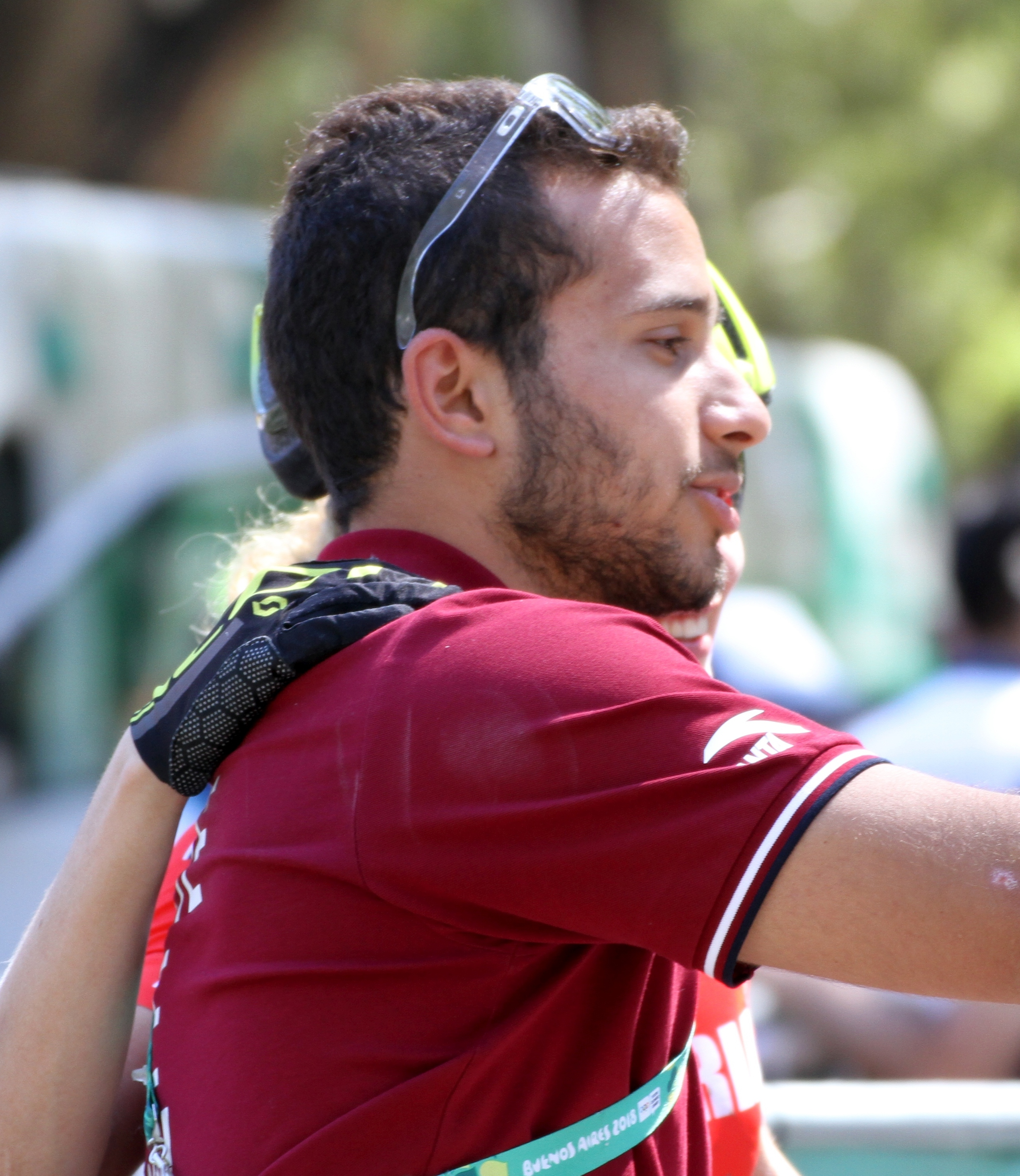 Cycling at the 2018 Summer Youth Olympics – Women's Combined Criterium – XCC after the Race on 16 October 2018.